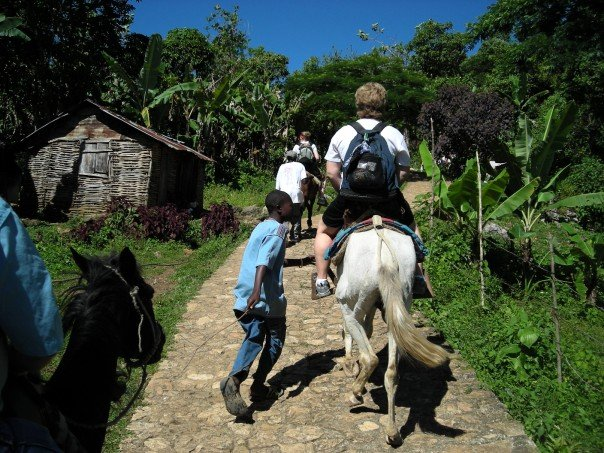 Locals whip horses to get them to travel more quickly up the steep mountain south of Cap Haitien, Haiti, to Citadelle Laferriere, a fortress completed in 1820, that was built to defend the region against French attacks.